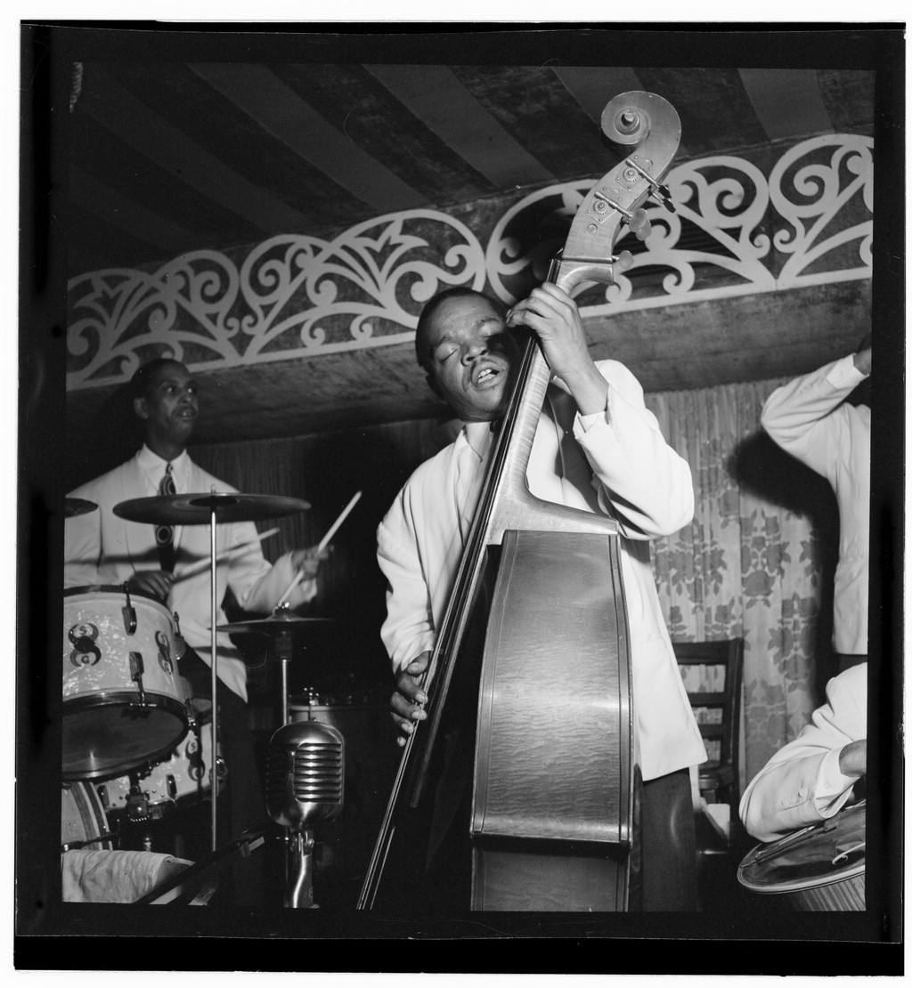 Junior Raglin and Sonny Greer, Aquarium, New York, N.Y., ca. Nov. 1946 (Photograph by William P. Gottlieb)